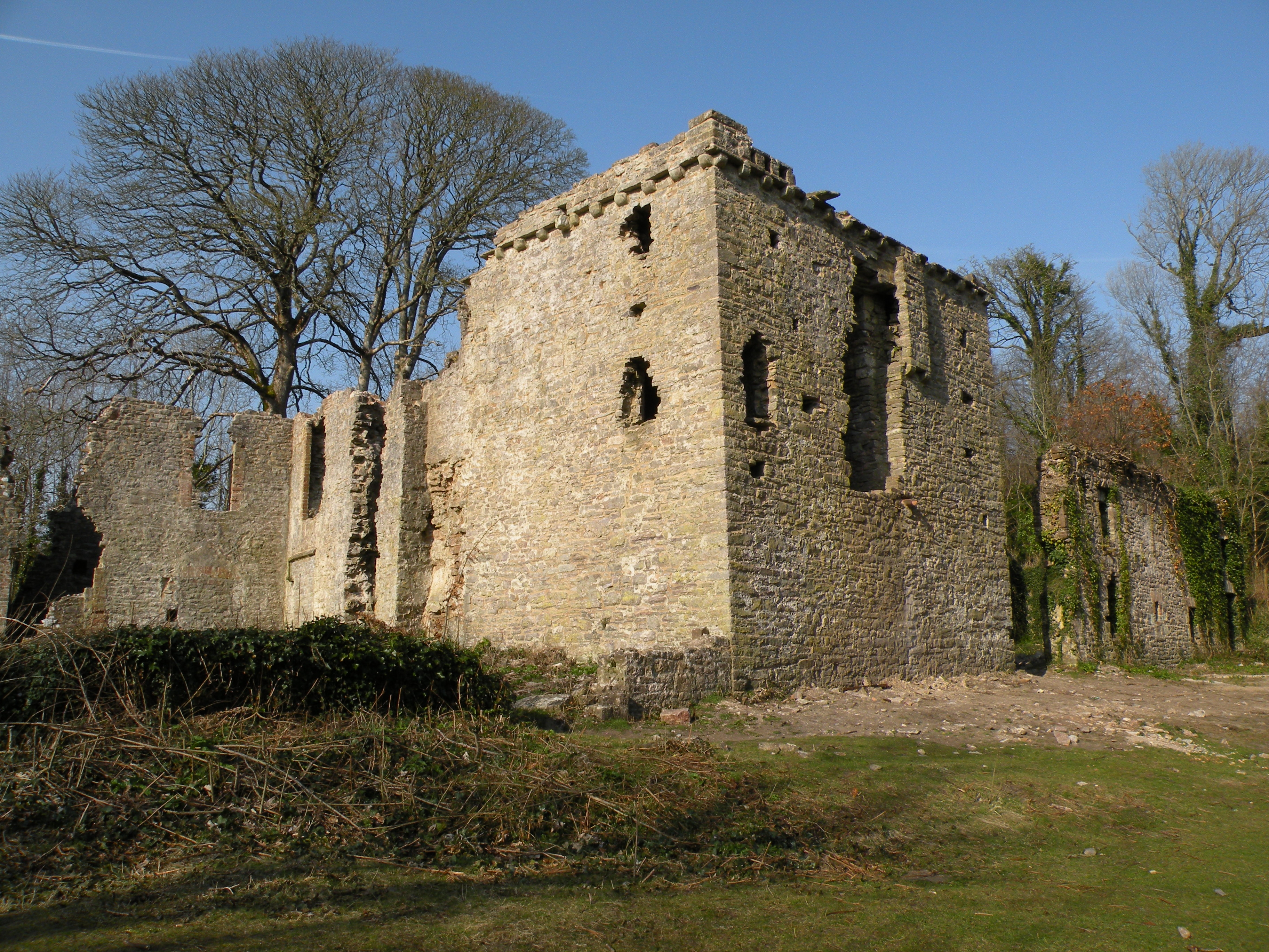 Candleston Castle 2009